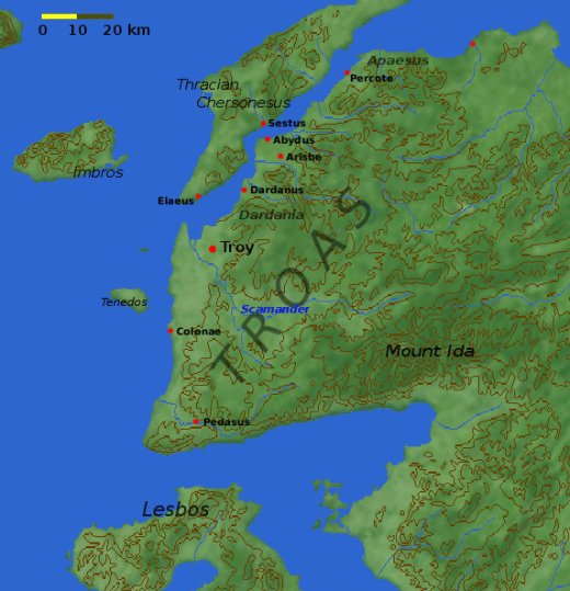 Map of the Troad, including the site of Troy. Note that the modern coastline has been altered to show a bay at the mouth of Scamander where the Greek ships would have been.